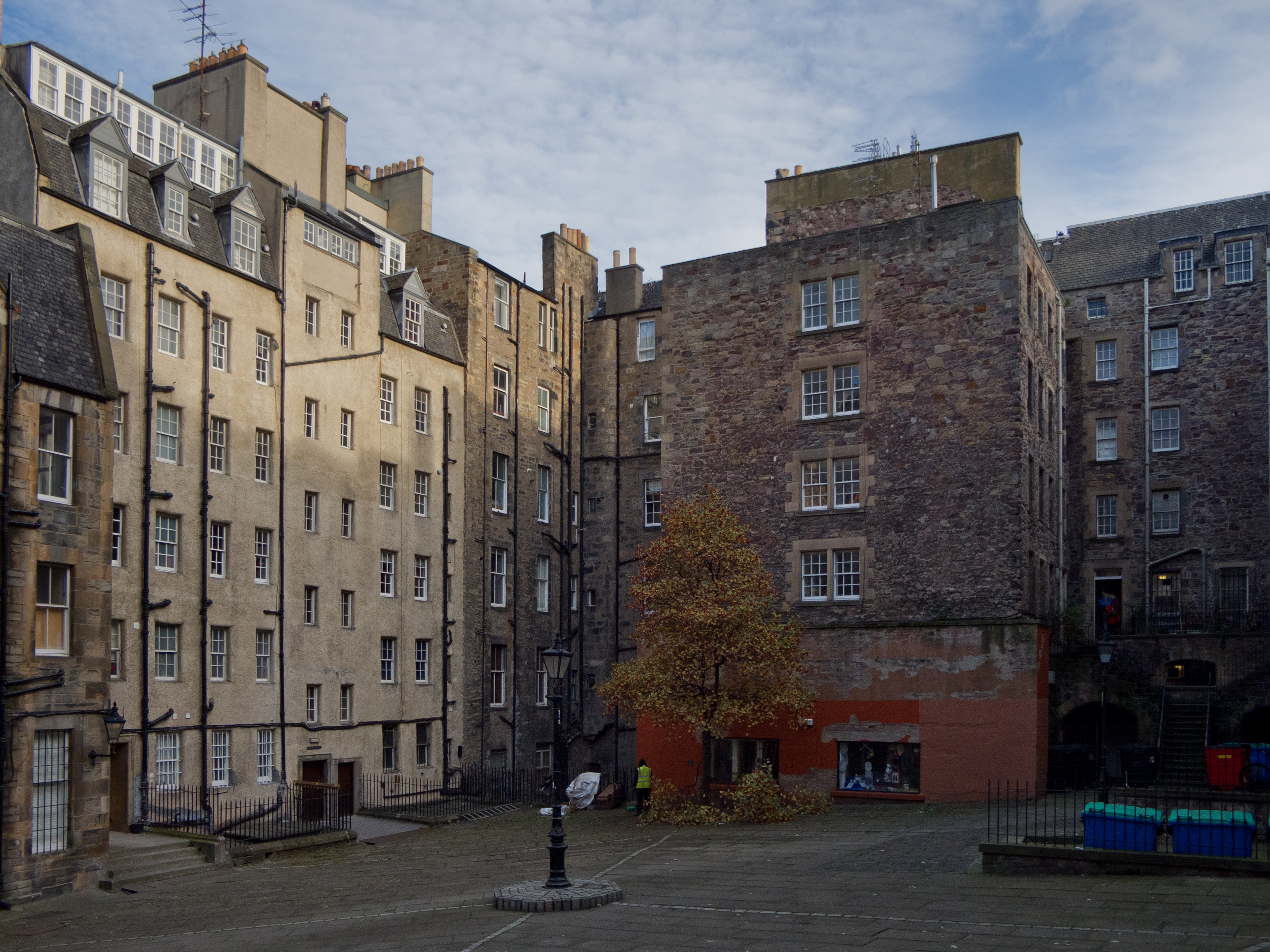 Makars' Court, Edinburgh, Scotland, UK. Wikidata has entry Q17575215 with data related to this building.